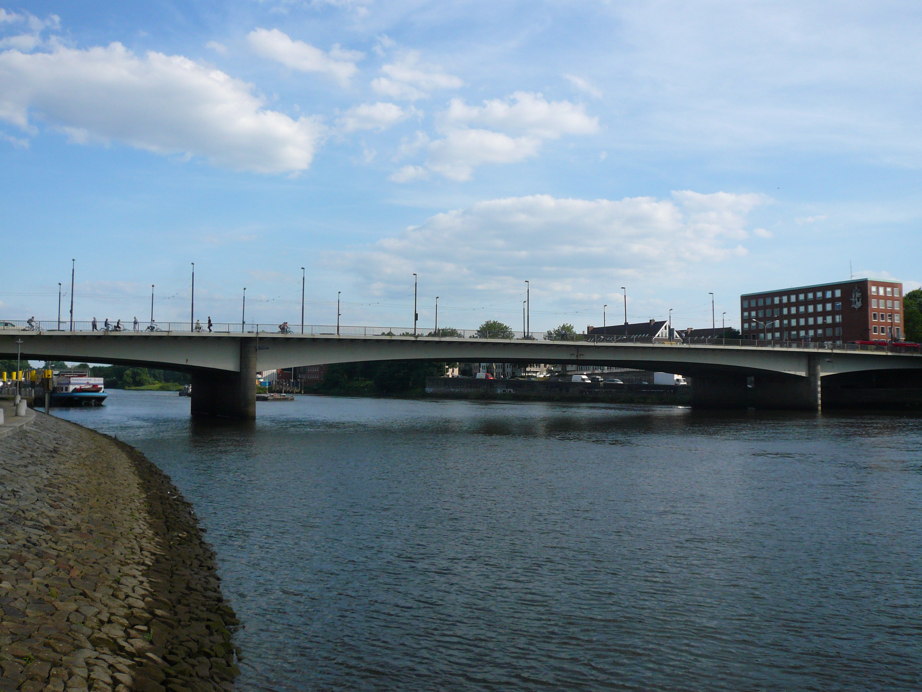 The Wilhelm-Kaisen-Bridge in Bremen, Germany. View upstream.